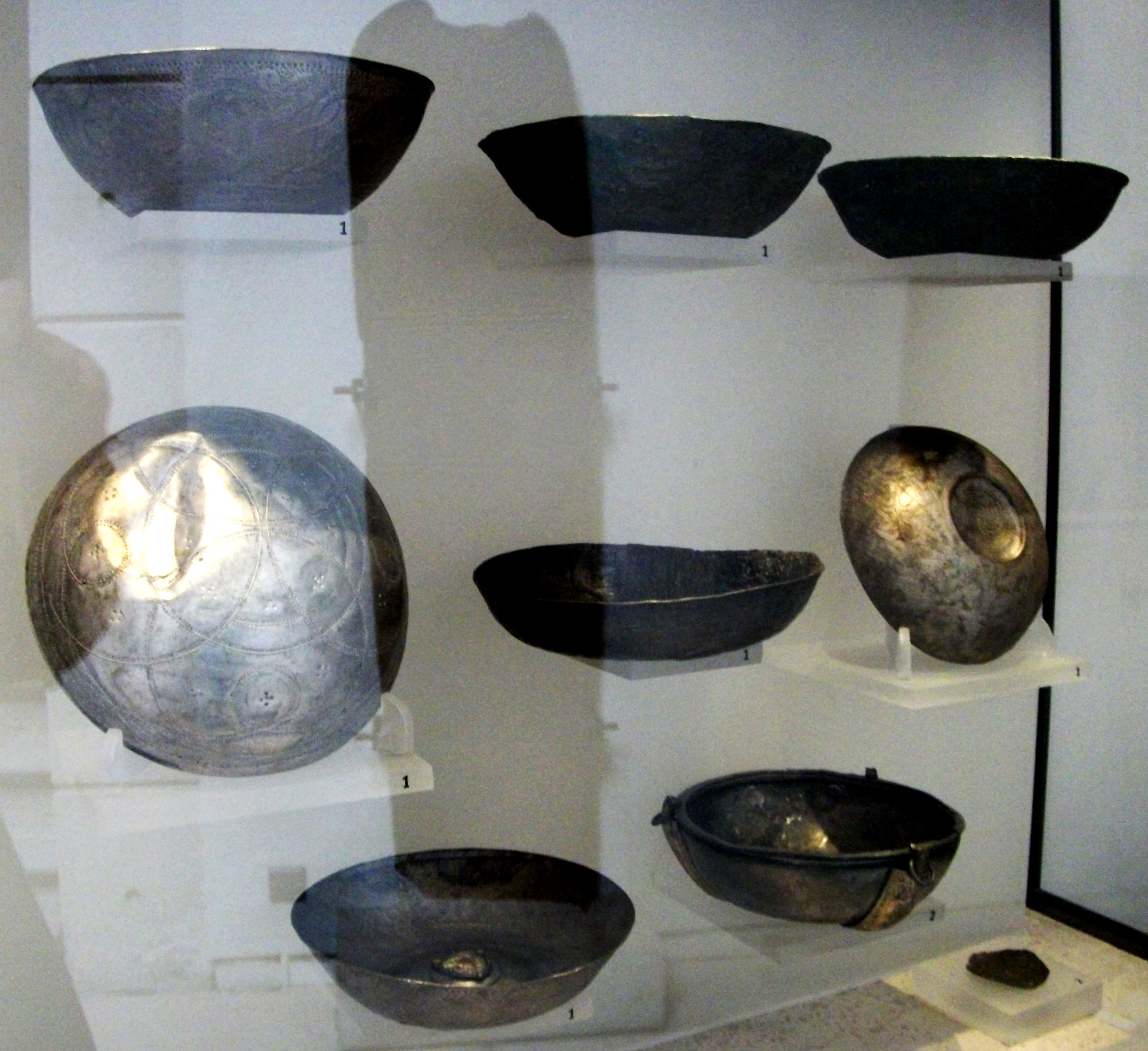 St Ninian's Isle Treasure